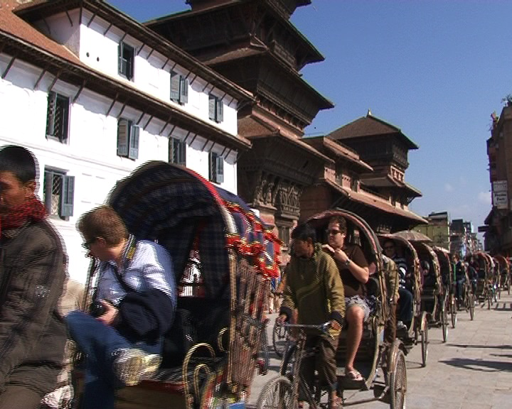 Riksaw_basantapur _nepal